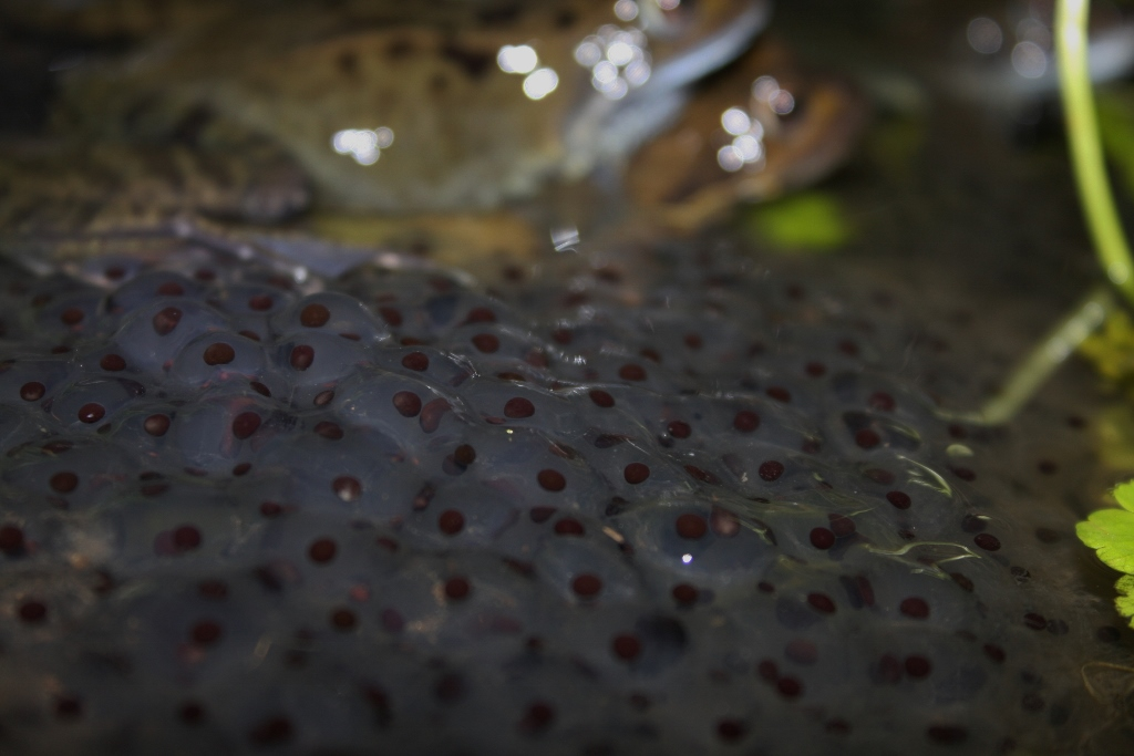 Breeding in central London garden pond.